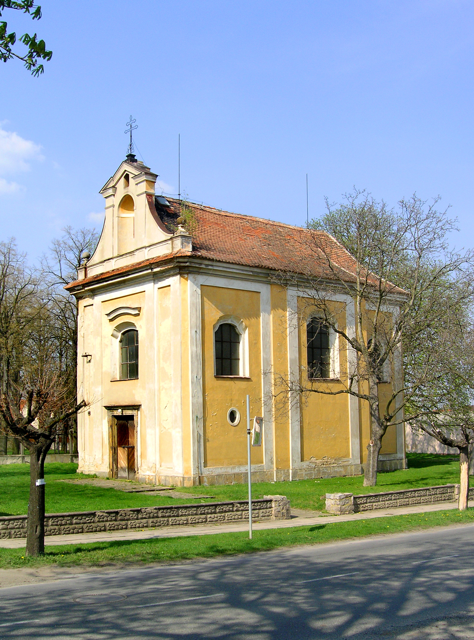 Saint Michael church in Mratín, Czech Republic